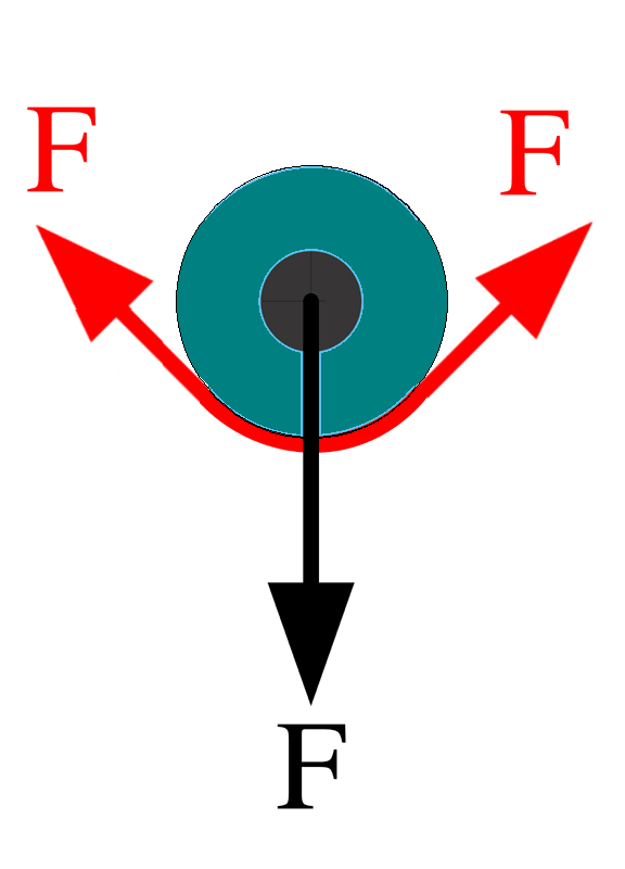 Schematic diagram of the forces on a pulley